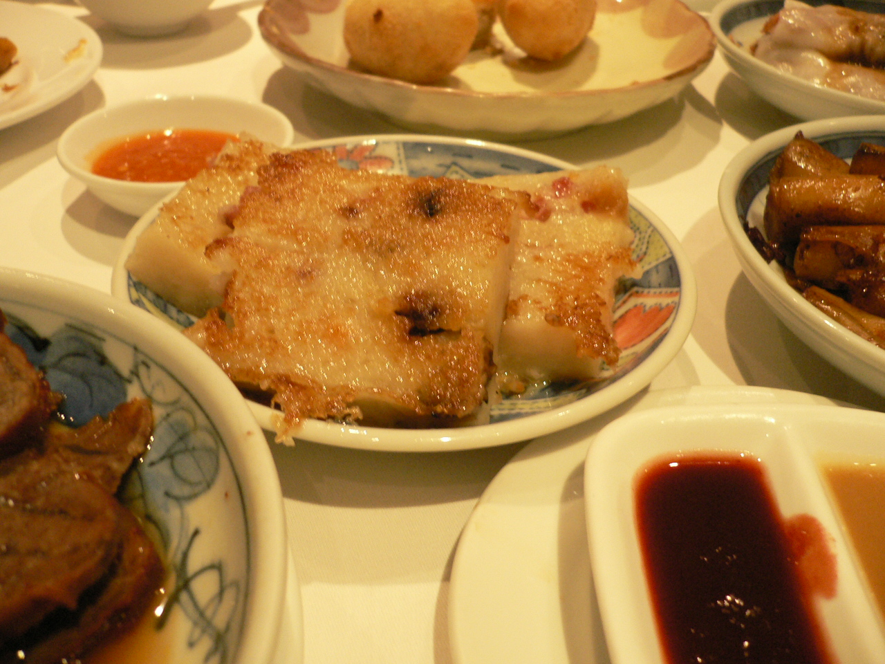 a kind of fried dim sum. Bân-lâm-gú: tsian kuè ê tshài-thâu-kué. 煎過的菜頭粿